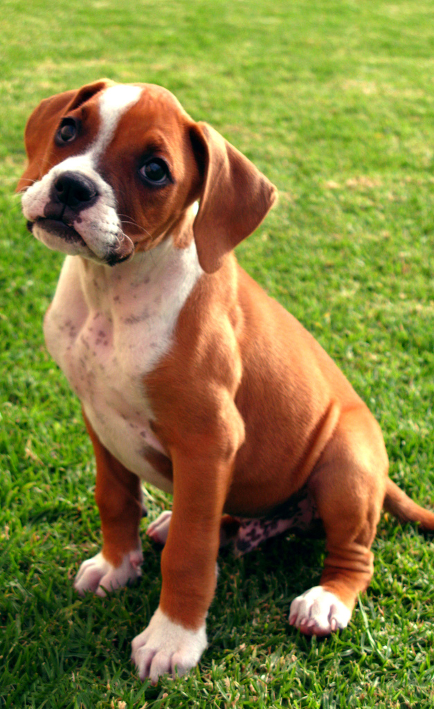 A two-month-old fawn Boxer puppy.